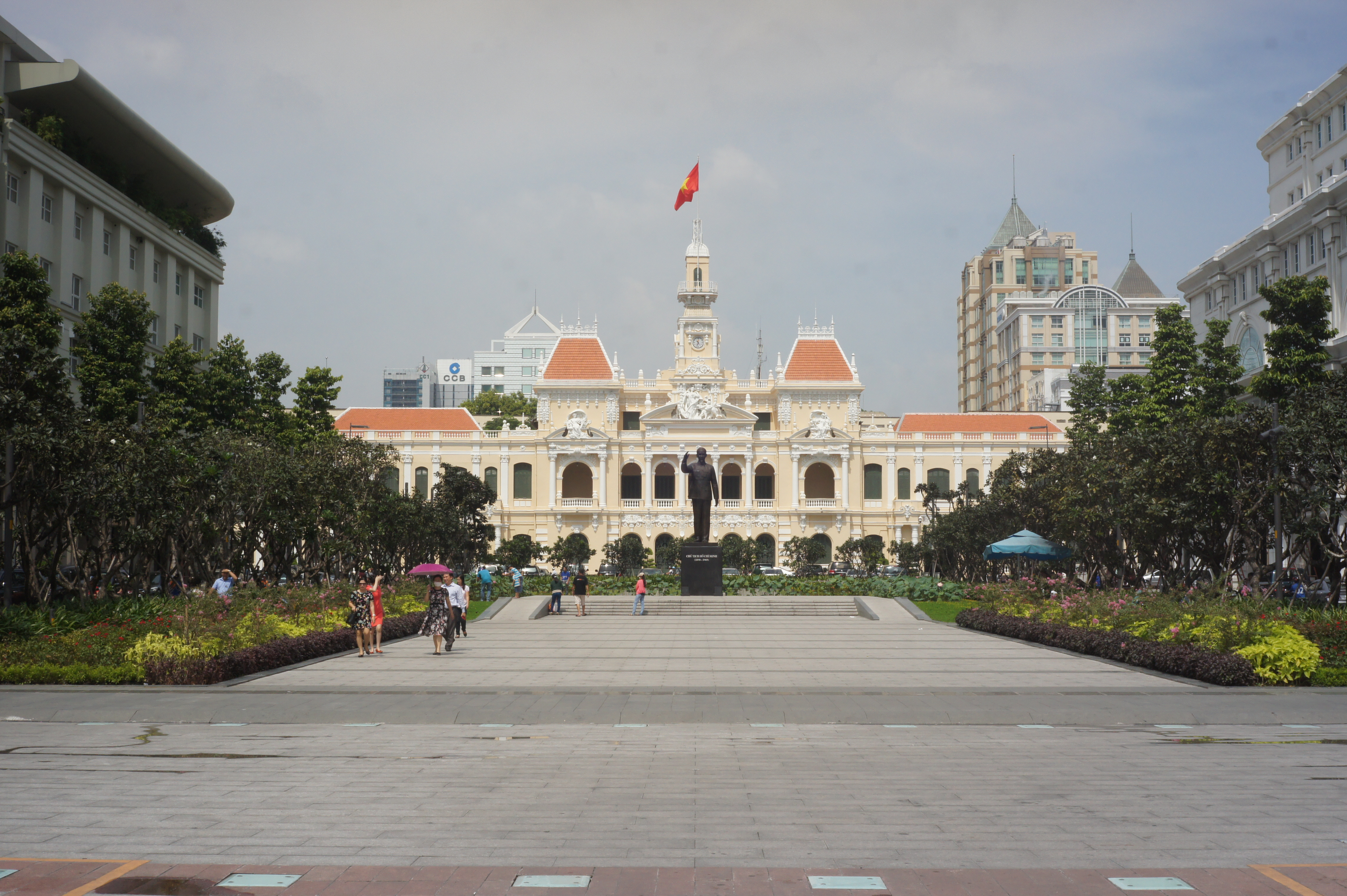 People's Committes of Hochiminh City